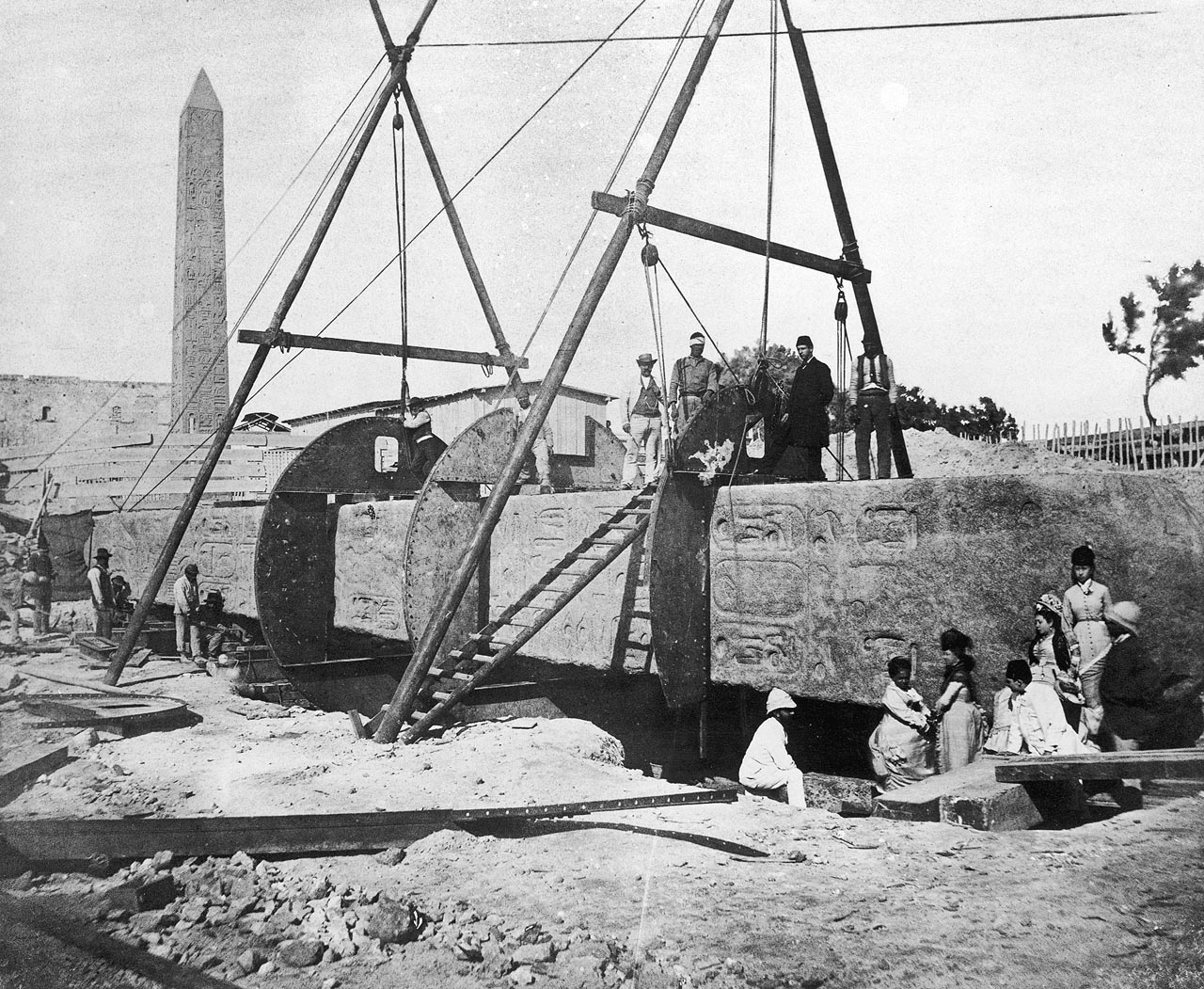 Cleopatra's Needle: construction of the cylinder around the Needle for transport to London.